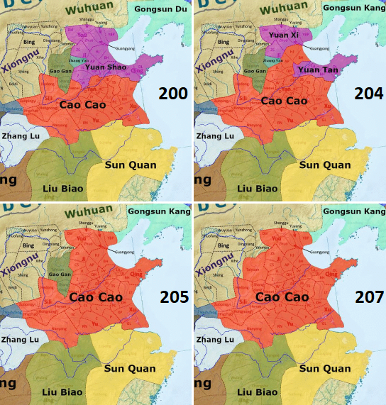 Cao Cao's conquest of northern China 200–207. This is an episode during the end of the Han dynasty, in the prelude of the Three Kingdoms period. Cao Cao and Yuan Shao, who had been childhood friends, had become the two most powerful warlords in China by the start of the year 200 amid growing rivalry. Despite his numerical superiority, Yuan Shao was defeated during the Guandu campaign (February 200 – June 201) and died in June 202, after which his three sons Yuan Tan, Yuan Shang and Yuan Xi entered into a war of succession. Cao Cao exploited the disunity in the Yuan clan by allying with Yuan Tan in 203, conquered the Yuan 'capital city' of Ye (controlled by Yuan Shang) in 204, killed Yuan Tan in the Battle of Nanpi in 205, defeated and killed Gao Gan (who had served the Yuans until 204, and served Cao Cao until rebelling in 205) in 206, and eventually defeated Yuan Xi, Yuan Shang and the Wuhuan tribes in the Battle of White Wolf Mountain in 207.